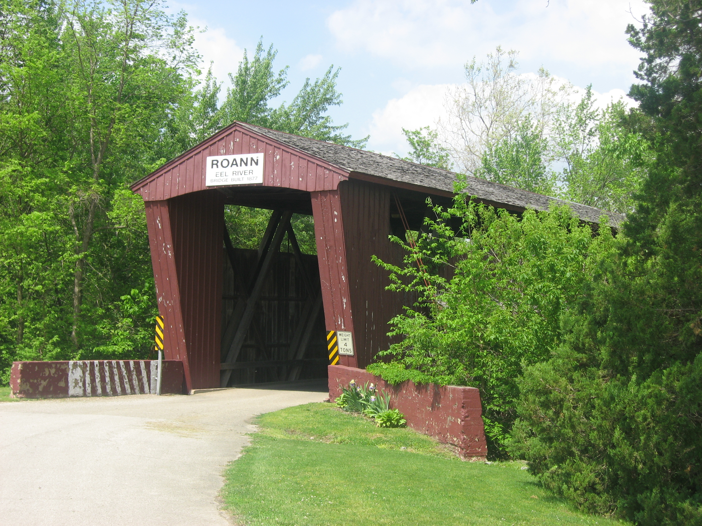 Southern portal and eastern (upstream) side of the Roann Covered Bridge, which spans the Eel River in Roann, Indiana, United States. Built in 1916, it is listed on the National Register of Historic Places, and it is part of a Register-listed historic district, the Roann Historic District.